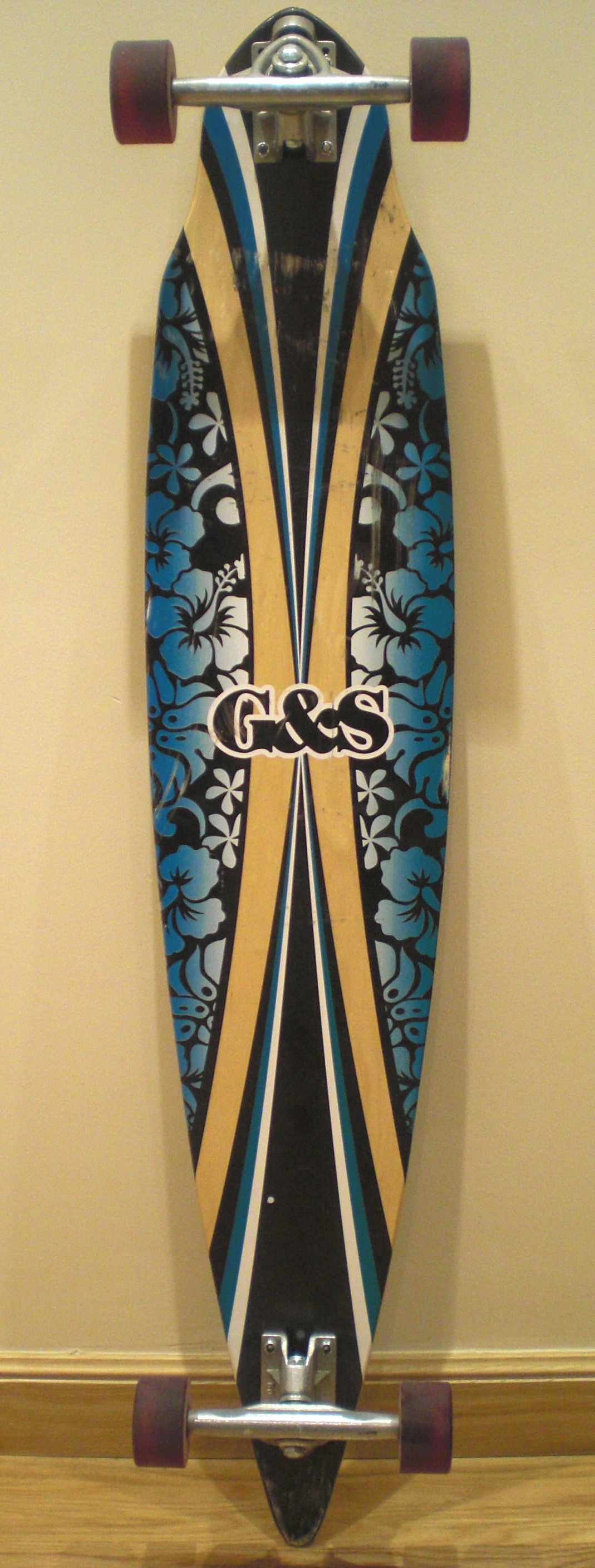 Gordon & Smith Aloha Blue 44 Pintail long deck. Madness trucks. 65x36x78A Madness wheels.